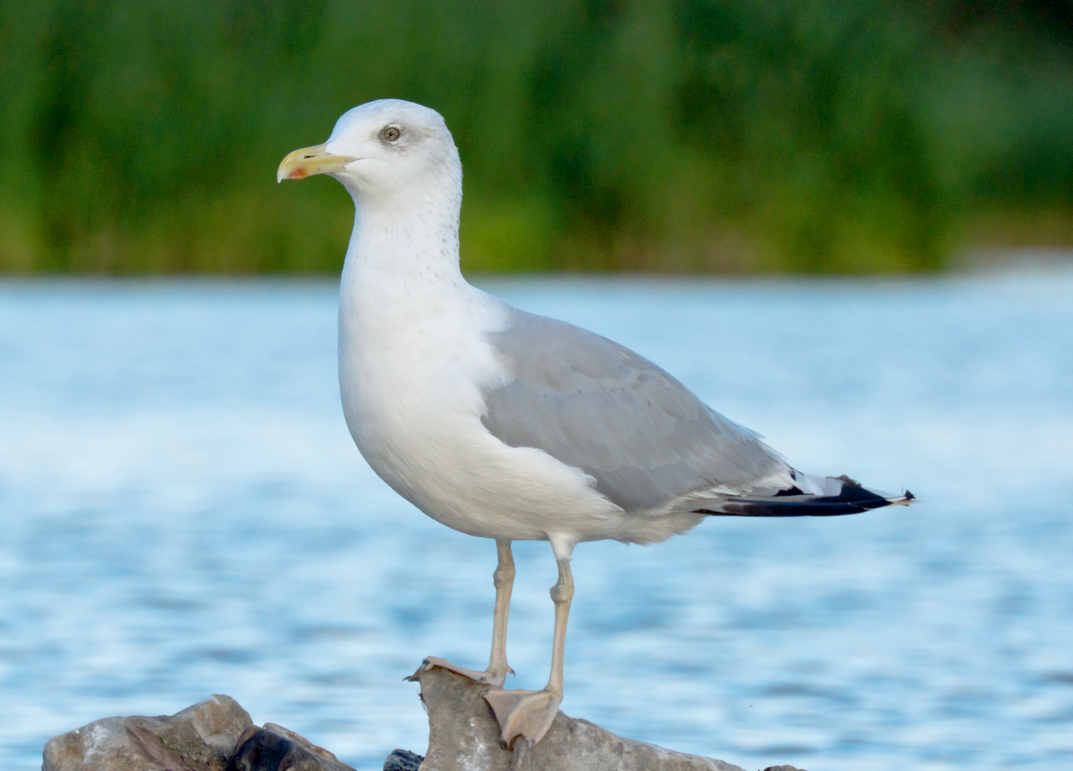 a Gull (Larus sp.), possibly a hybrid L. argentatus × L. cachinnans